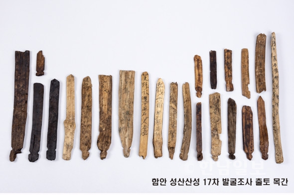 These are sixth-century Korean mokgan (wooden tablets) excavated from Mount Seongsan Fortress, Haman, South Korea. Mokgan were used for administrative and statistical purposes when paper was unavailable. The Mount Seongsan mokgan, excavated and studied at length beginning in 2007, take up a full half of the total Korean mokgan corpus and may include the first direct attestation of the Korean language in history. These particular twenty-three tablets were found during the seventeenth round of excavations, from 2014 to 2016. See Lee, Seungjae (September 25, 2017) 木簡에 기록된 古代 韓國語 (The Old Korean Language Inscribed on Wooden Tablets), Seoul: Ilchogak ISBN: 978-89-337-0736-4. for a fuller discussion of this valuable data on Old Korean.